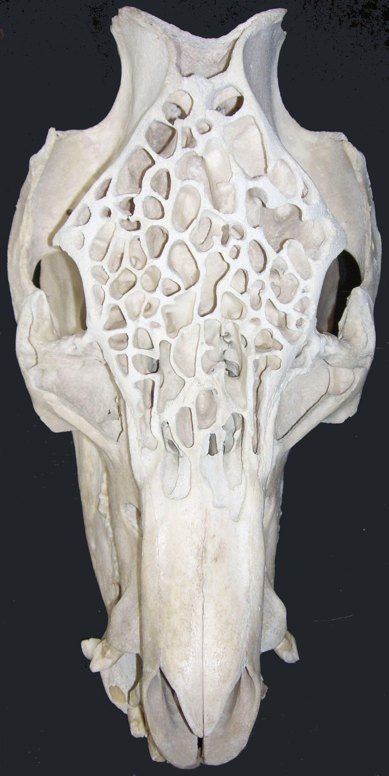 opened frontal sinus if a pig skull